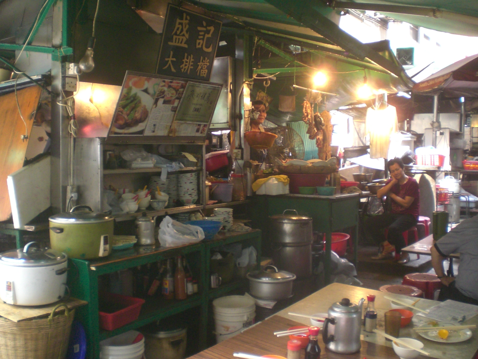 香港島中環吉士笠街